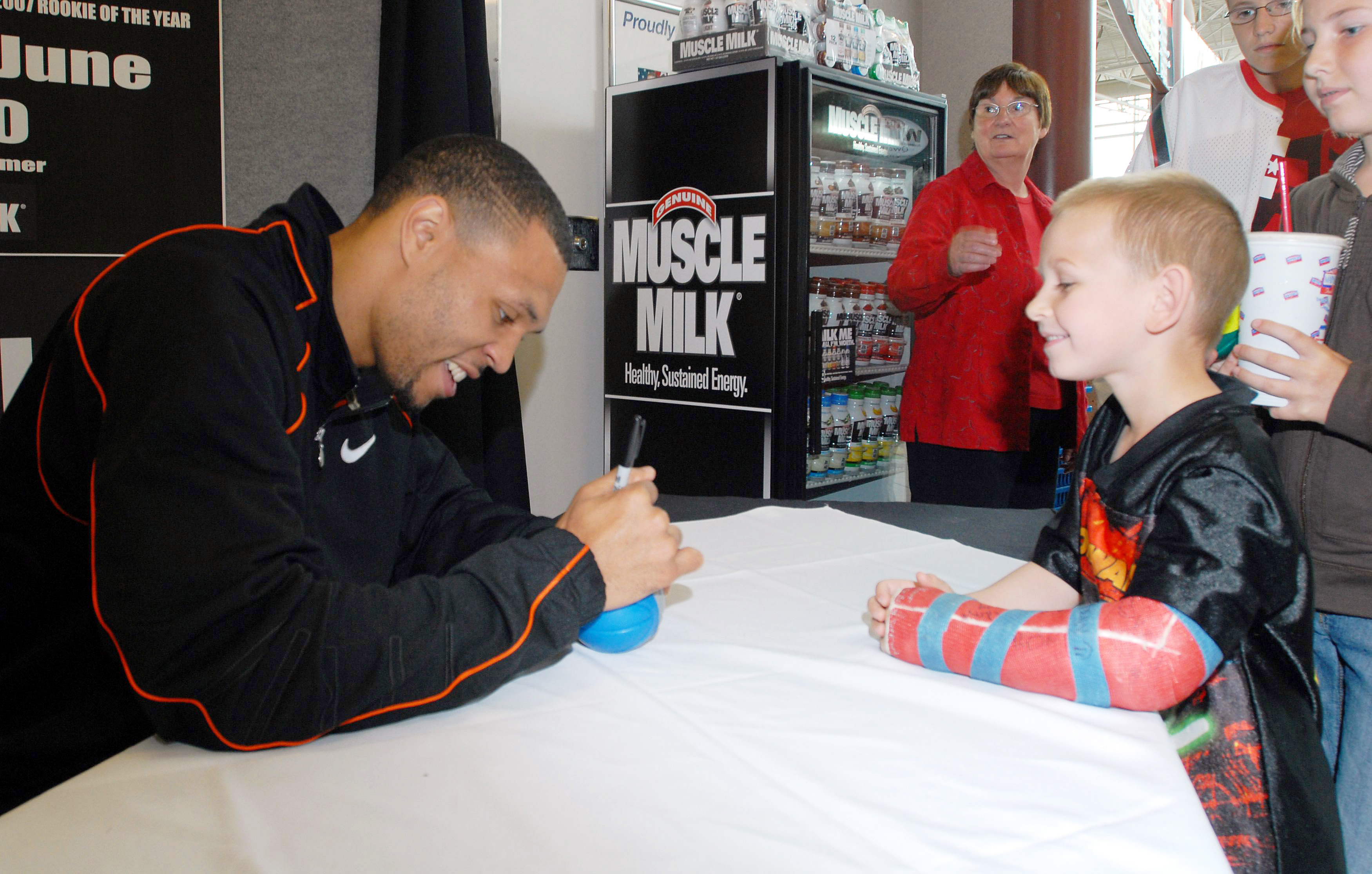 Brandon Roy signs an autograph for Aiden Wigginton during a visit to Fort Lewis June 25.